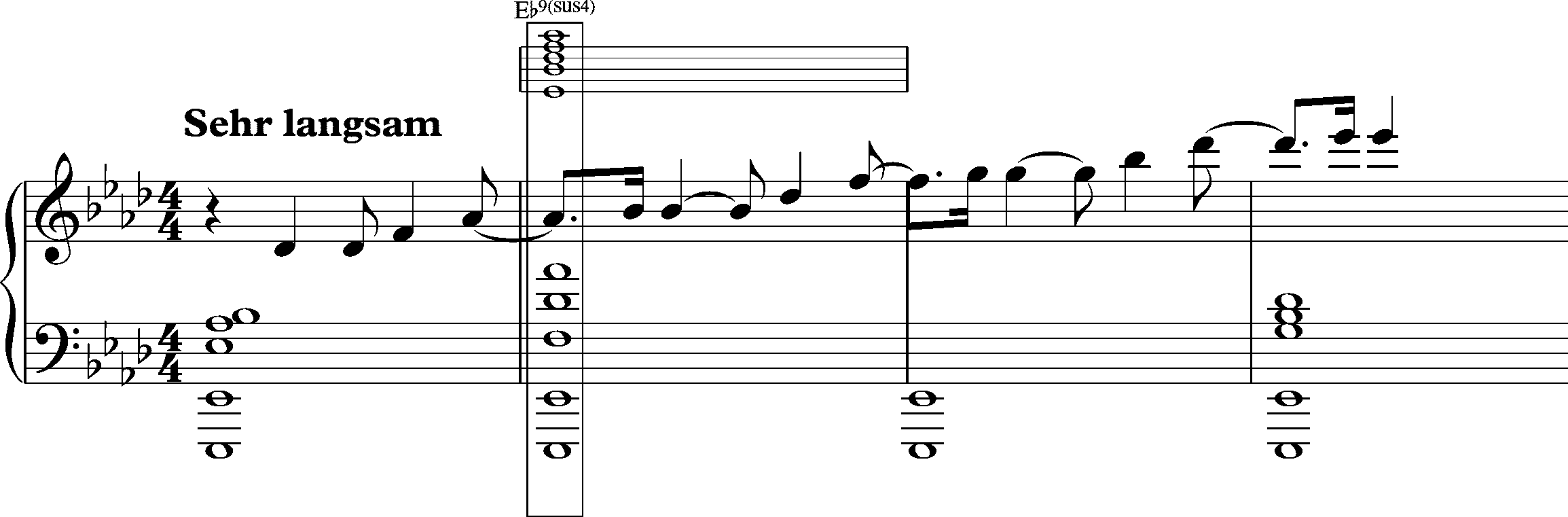 Wagner, prelude to Parsifal, concluding bars